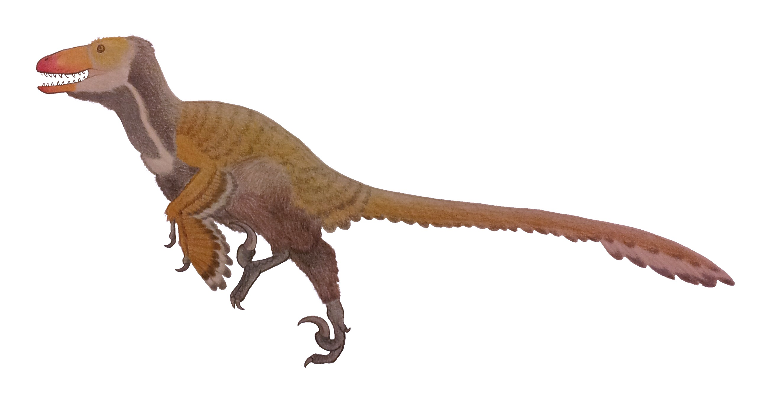 Sketch of Dakotaraptor based on skeletal reconstruction from Robert A. DePalma, David A. Burnham, Larry D. Martin, Peter L. Larson and Robert T. Bakker (2015). "The first giant raptor (Theropoda: Dromaeosauridae) from the Hell Creek Formation". Paleontological Contributions 14: 1–16, with the colouring based on that of the little bustard.